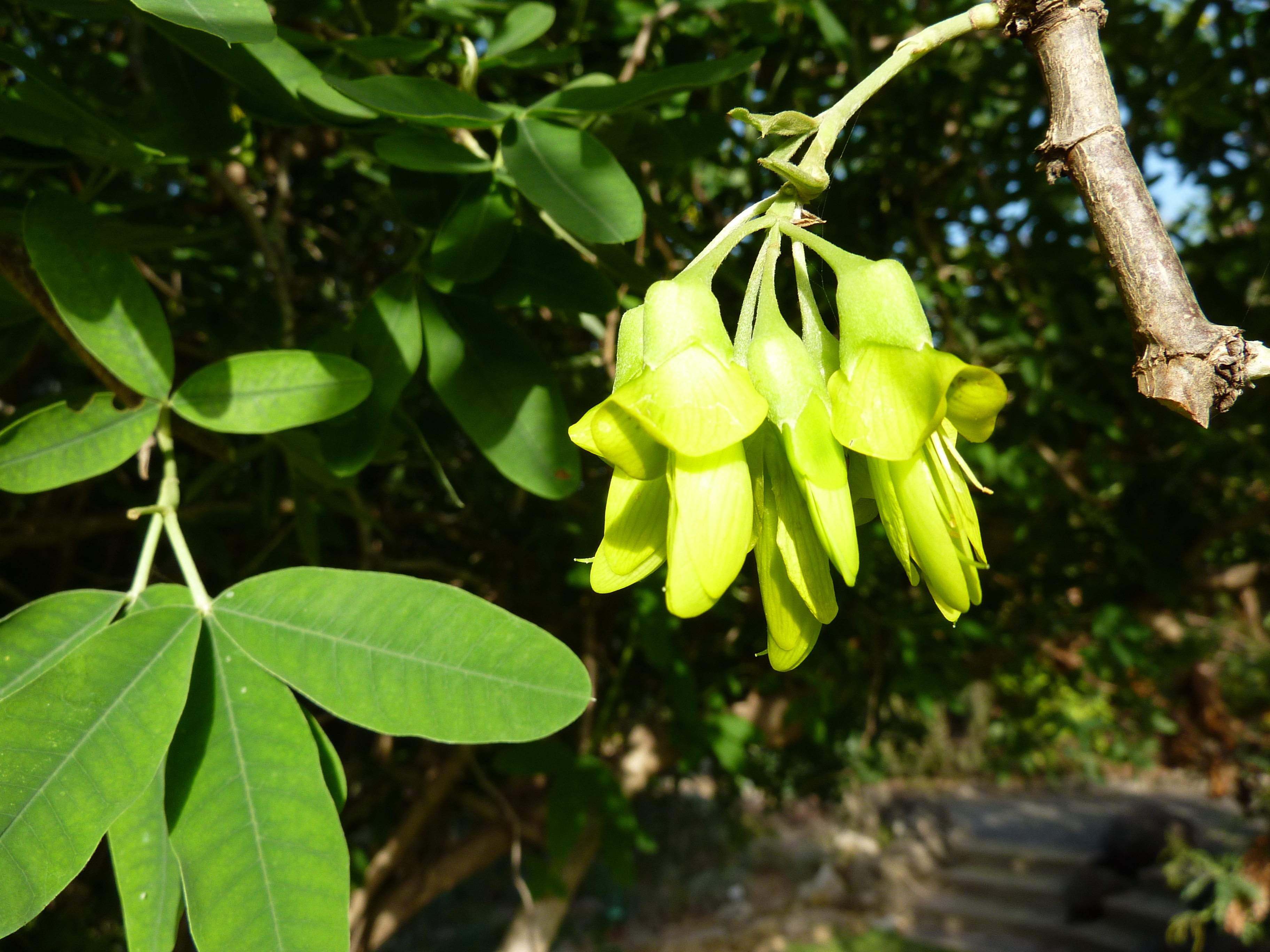 Anagyris latifolia in the Jardín Botánico Canario Viera y Clavijo.